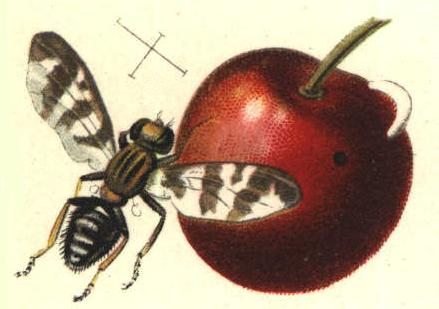 drawing of a fly living on cherry plants